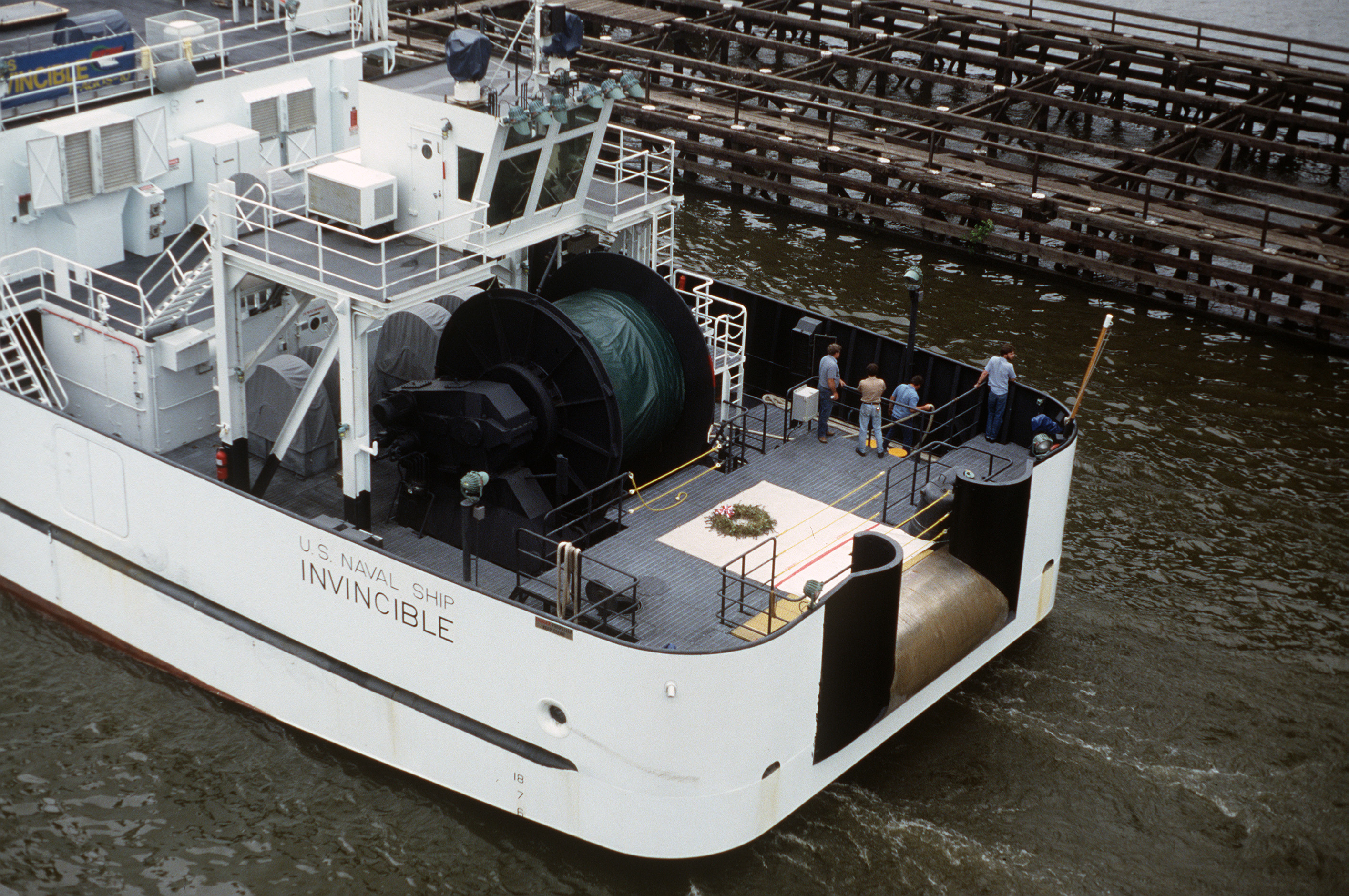 A close-up view of surveillance towed array sound system equipment on the stern of the ocean surveillance ship USNS Invincible (T-AGOS-10). The ship is passing through the open draw span of the Frederick Douglass Memorial Bridge on the Anacostia River in Washington, D.C.